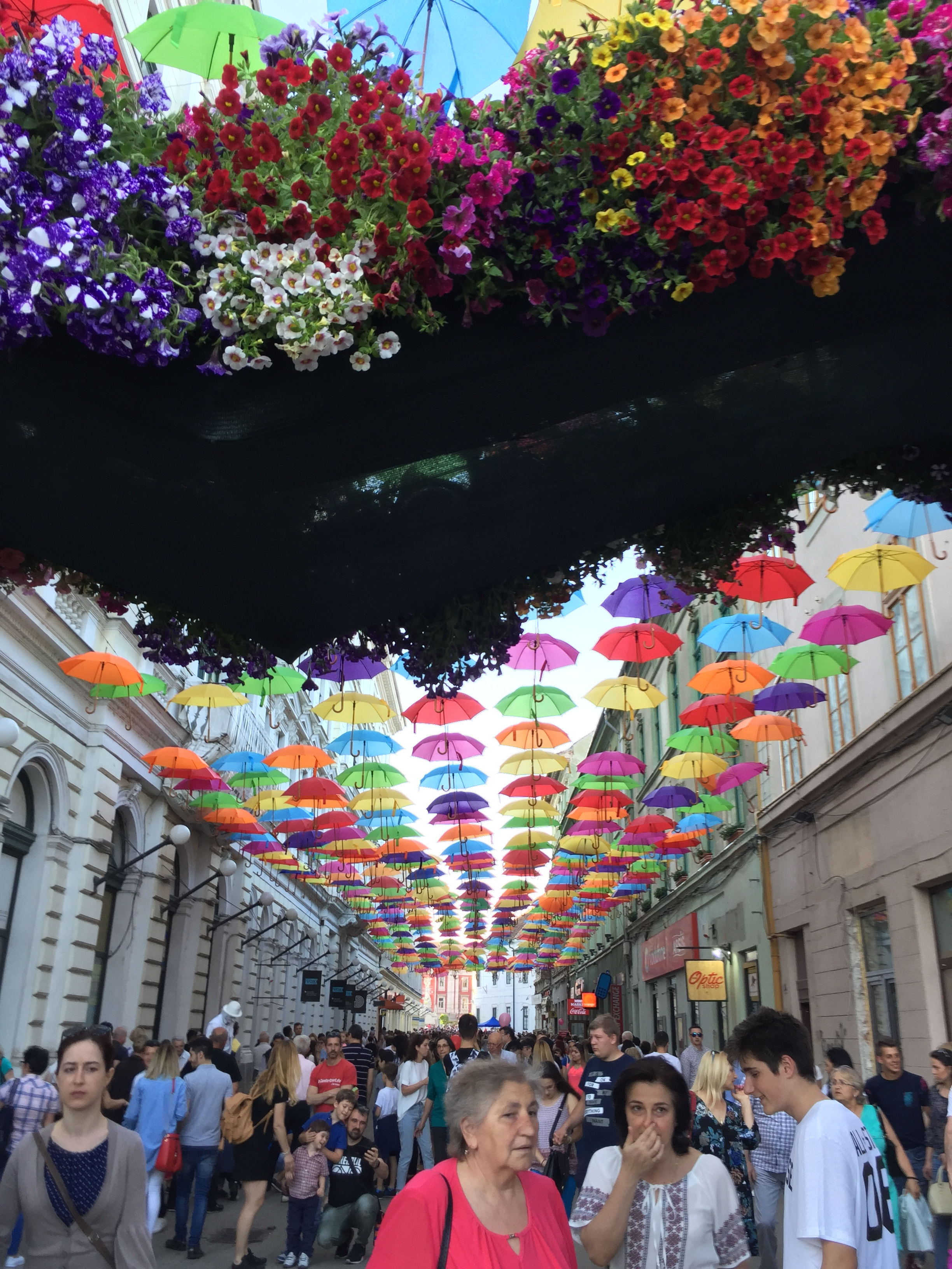 2018 edition of Timfloralis